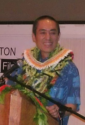 Zhang Yimou, photo taken at the Hawaii International Film Festival by Alejandro Bárcenas (2005)